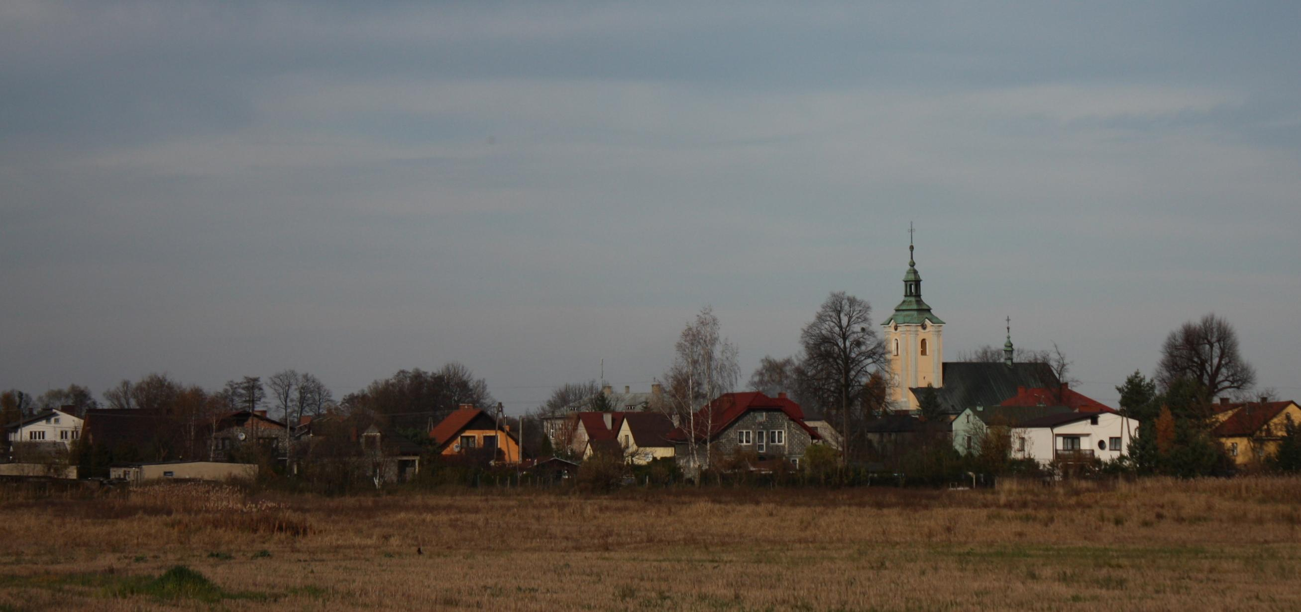 Ligota (Upper Silesia) Church of Providence of God